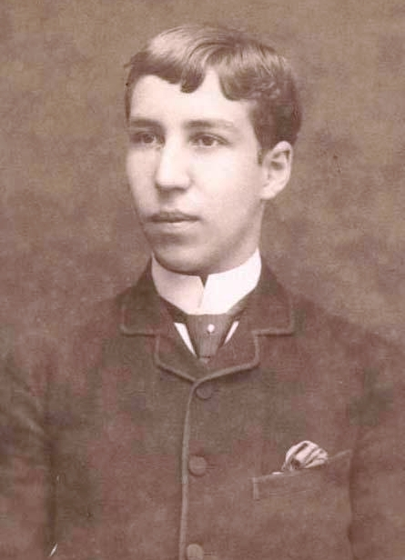 Francisco Antonio Encina Armanet (September 10, 1874, San Javier – August 23, 1965, Santiago) was a Chilean politician, agricultural businessman, political essayist and historian. He authored the History of Chile from Prehistory to 1891: with 20 volumes, it stands as the largest individual historical work of the 20th century in Chile. Additionally, he worked with Tancredo Pinochet, Guillermo Subercaseaux, Luis Alberto Edwards Vives and Luis Galdames Galdames as founders of the first Chilean nationalist party.